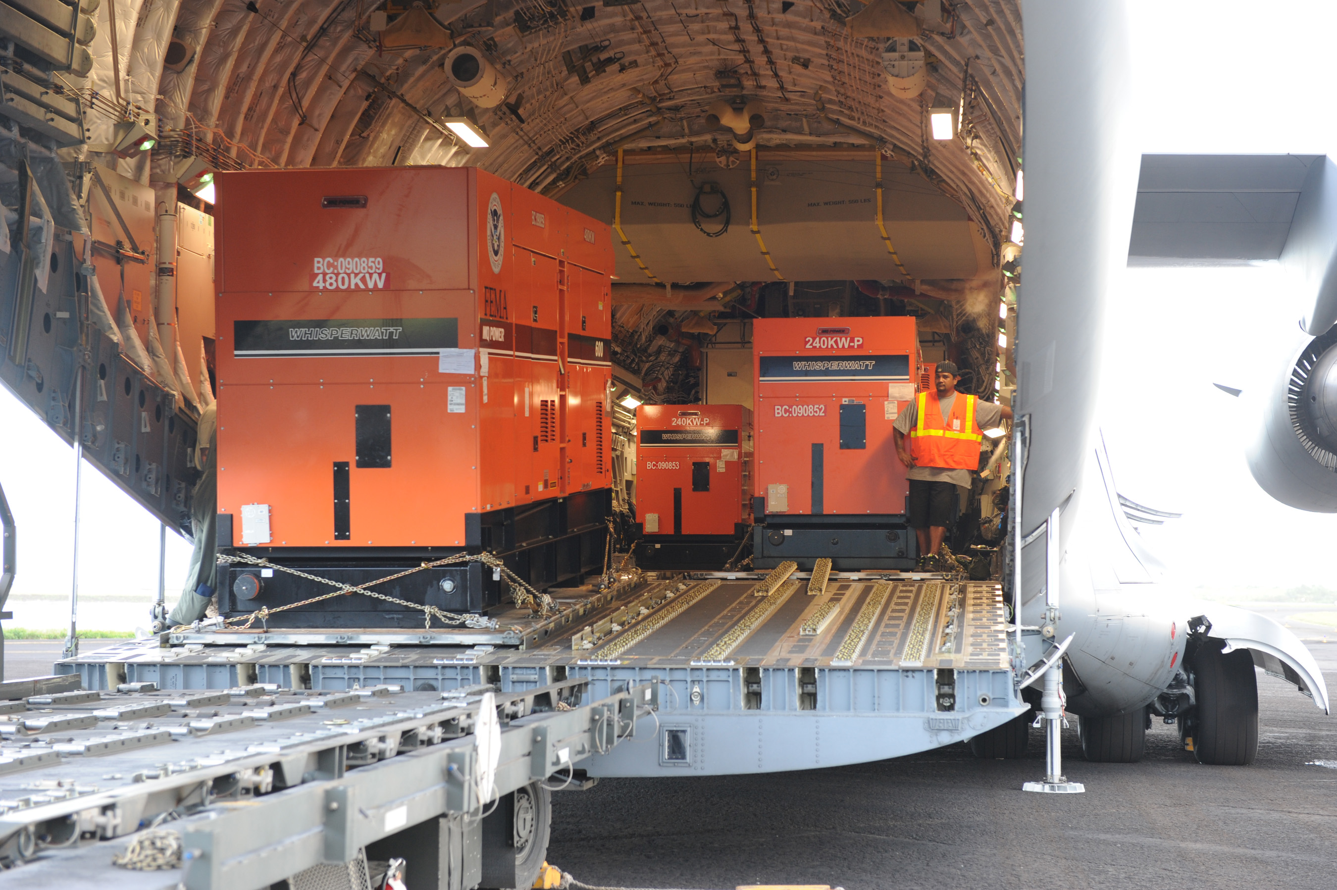 Pago Pago, AS, October 2, 2009 -- FEMA generators are being unloaded from a C-17 military cargo plane. FEMA shipped generators from its warehouses to American Samoa to help provide electric power to critical facilities in American Samoa.